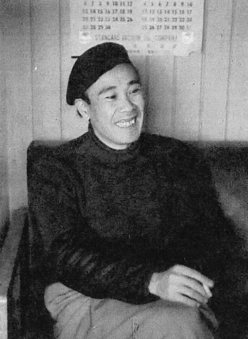 Tsunayoshi Takeuchi